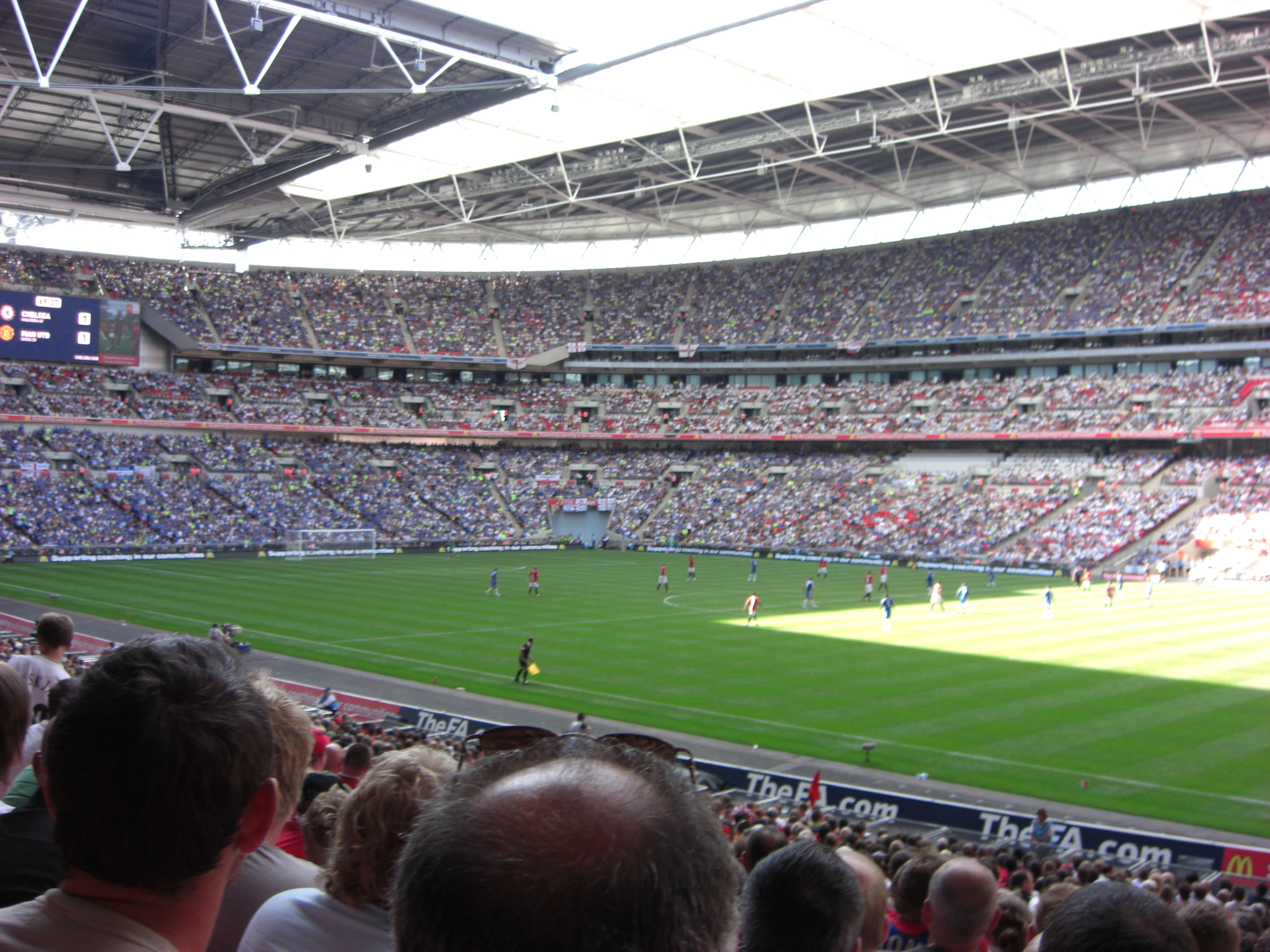 Manchester United vs Chelsea 1-1 (3-0 after panalties) - Community Shield at Wembley